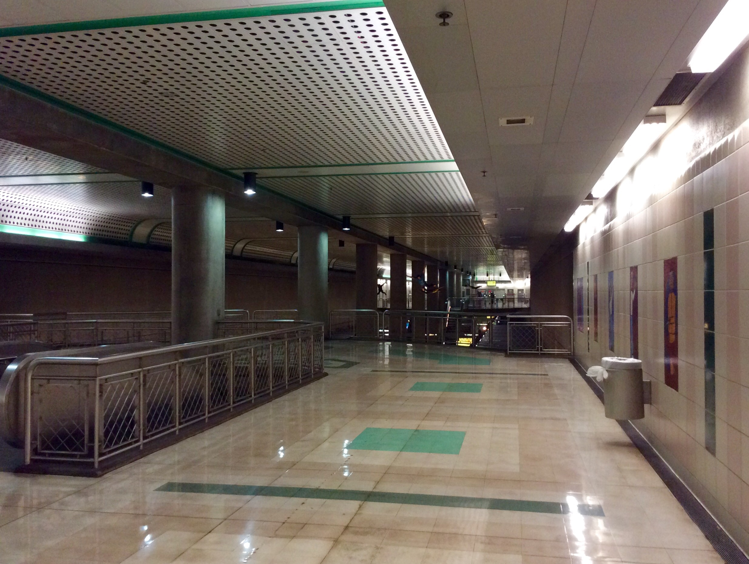 The upper floor view of Civic Center Station.